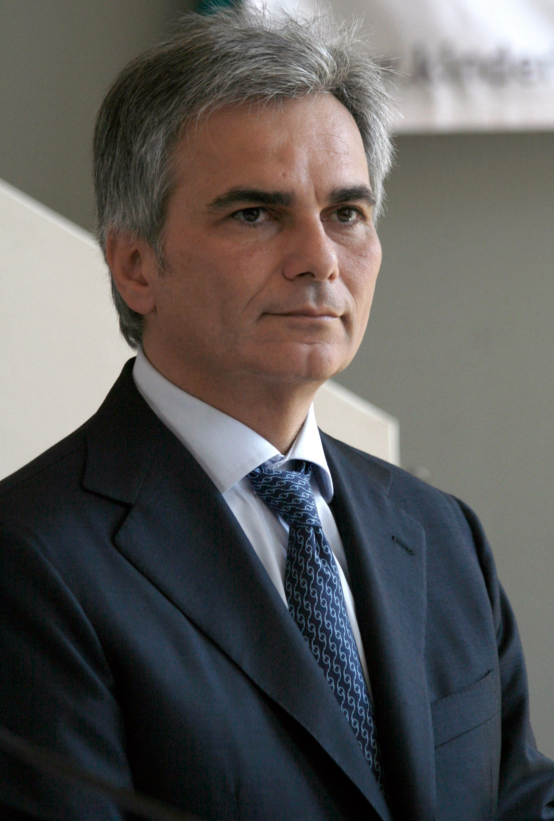 Austrian politician Werner Faymann (SPÖ) at a press conference during the campaign for the Austrian legislative election (Museumsquartier, Vienna).